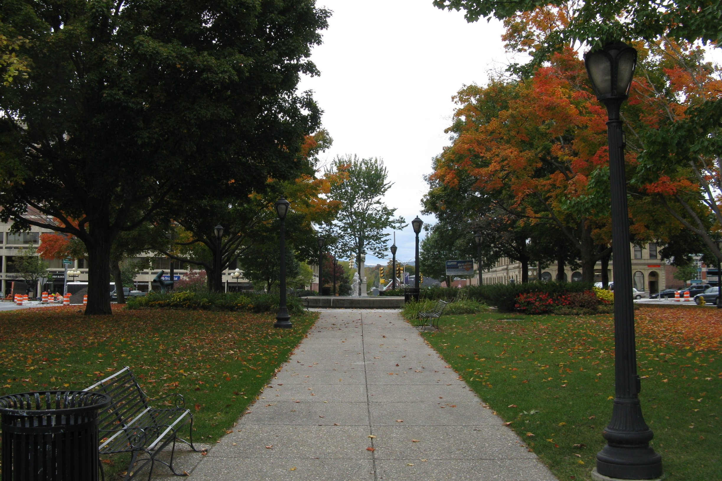 Park Square, Pittsfield Massachusetts